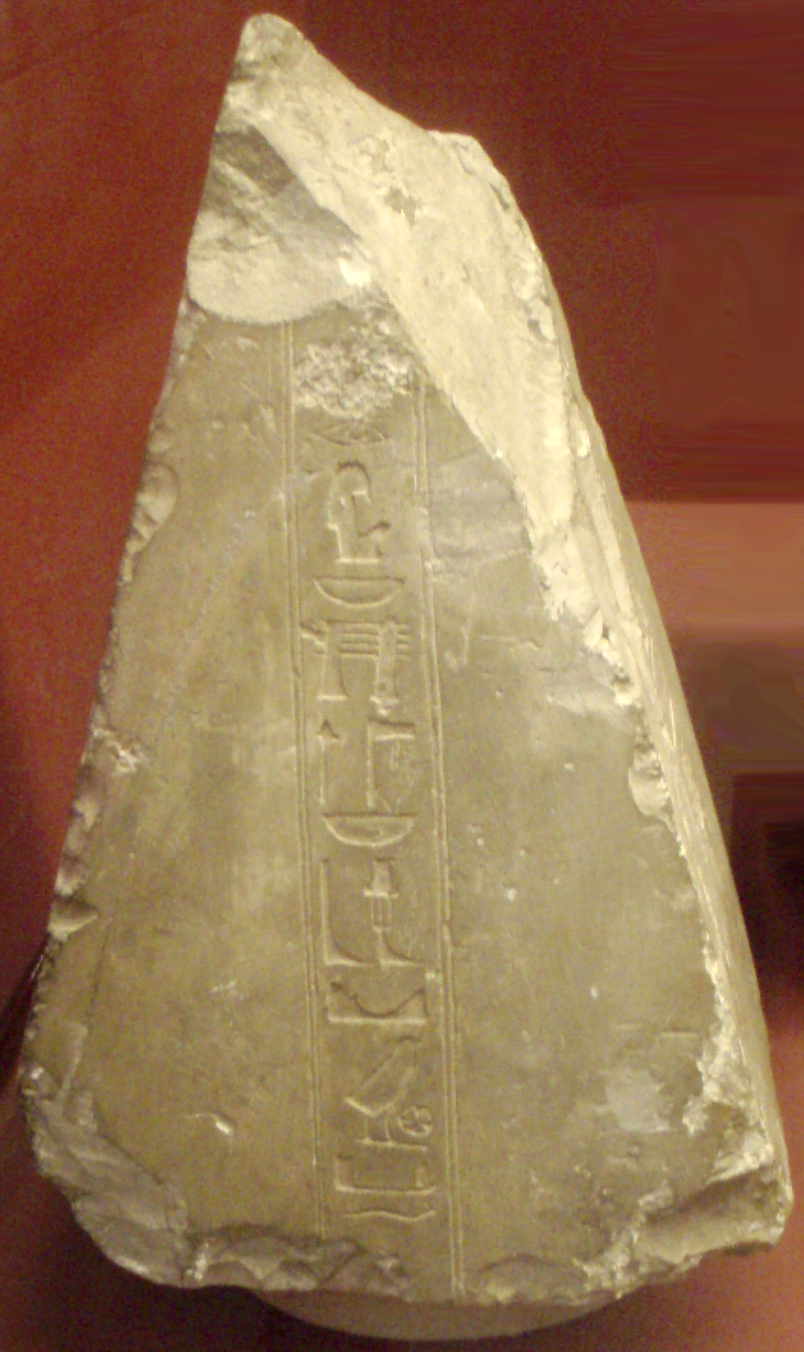 Pyramidion from a private tomb. Made of limestone, from the time of the New Kingdom. RC 1726.